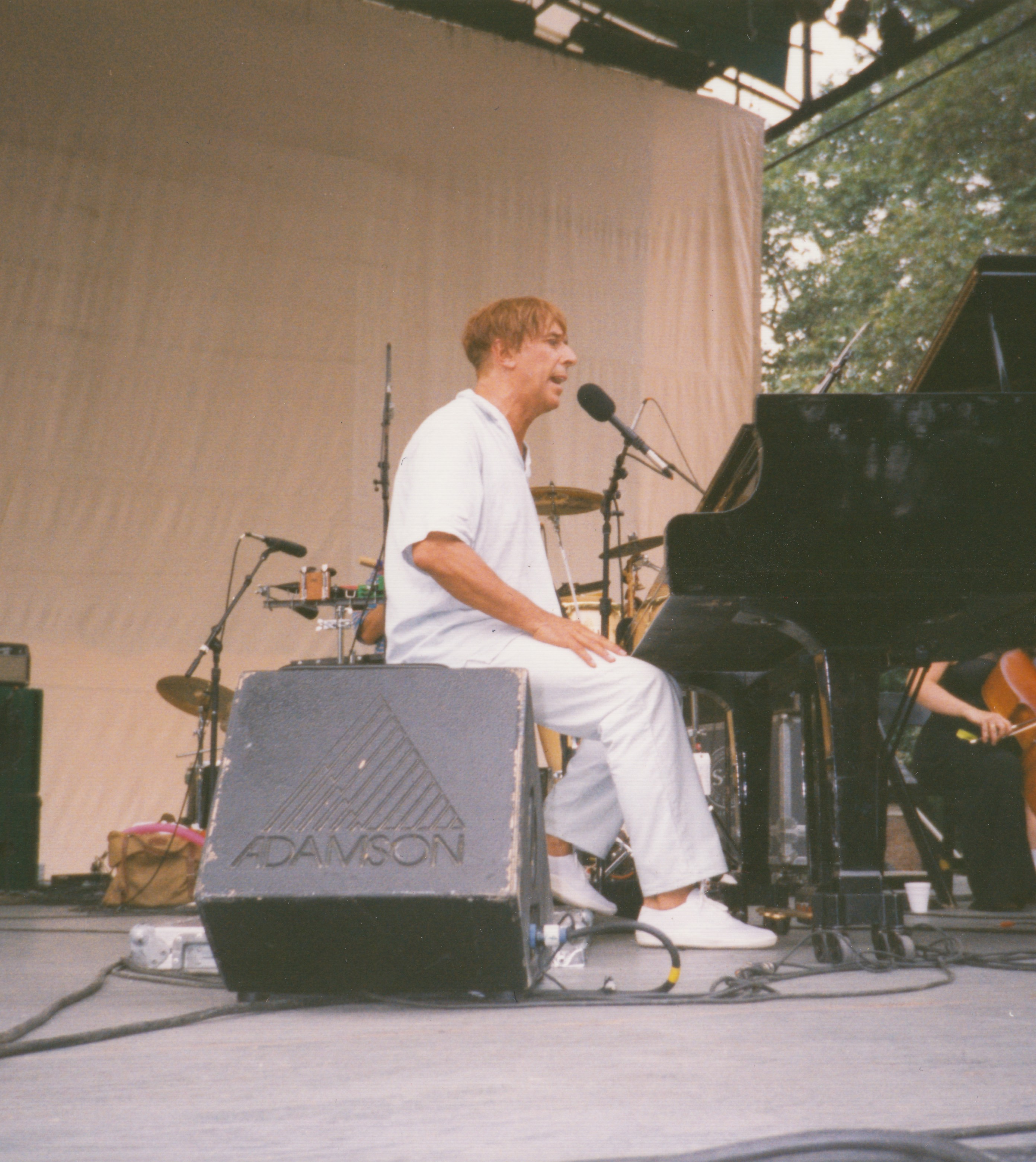 John Cale in Central Park, NYC (Summerstage Festival) in 1995